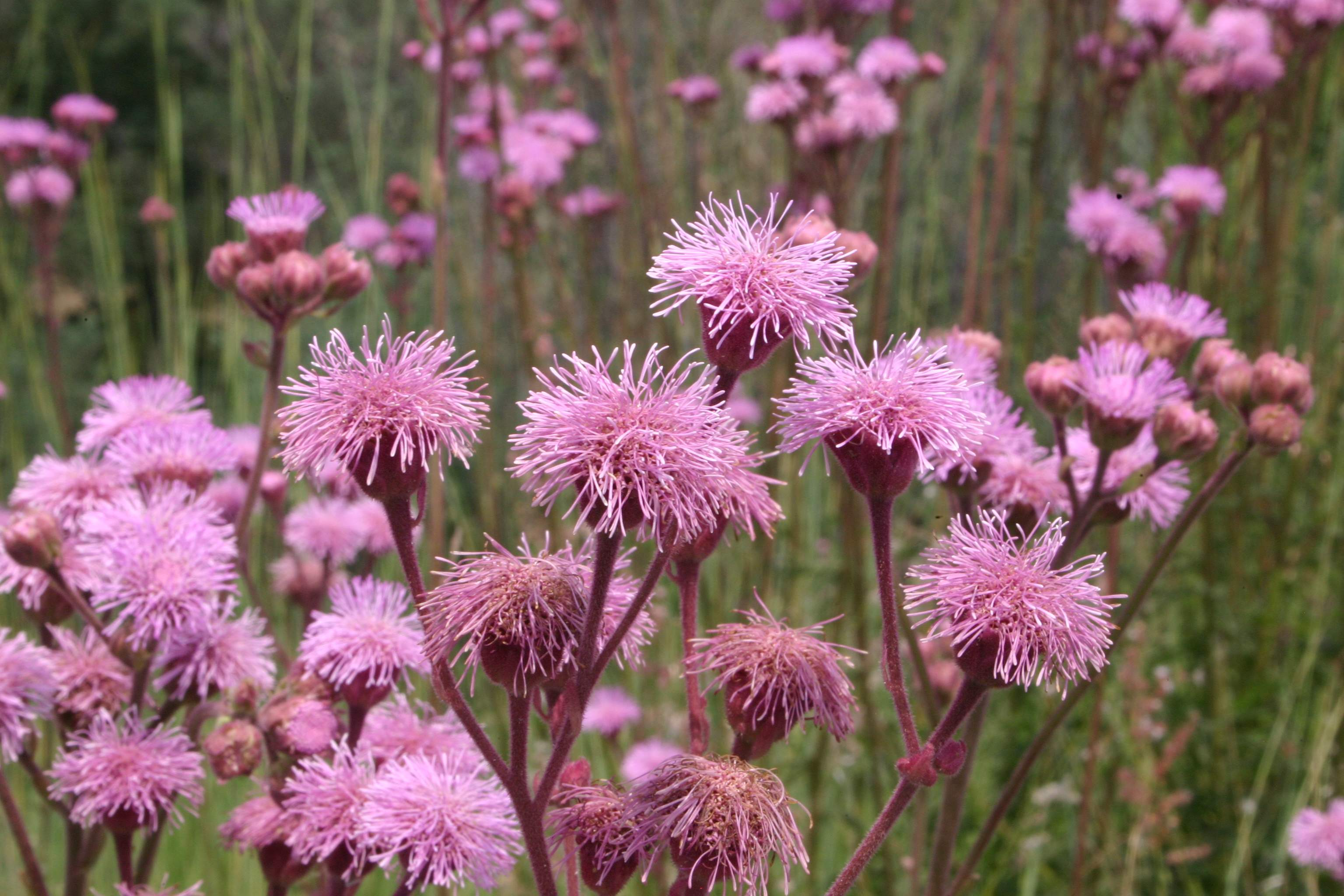 Eupatorium macrocephalum Less., growing on roadside, Honeydew, Gauteng